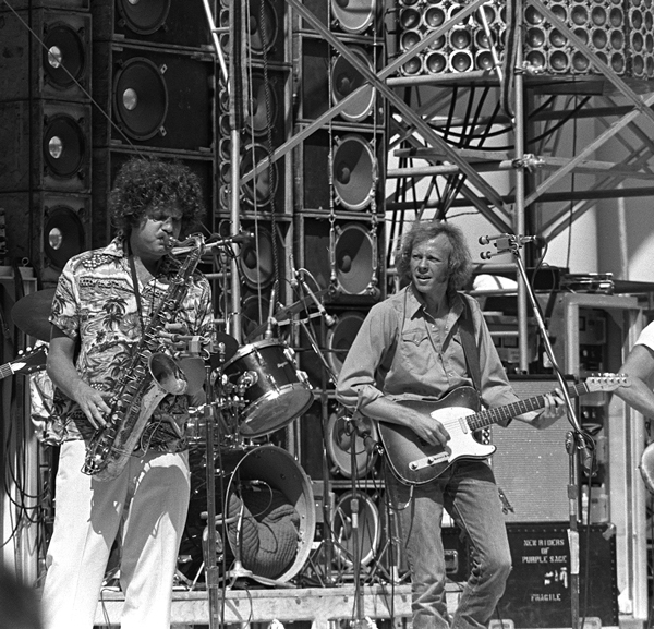 Andy Stein (left), John Tichy. Hollywood Bowl 7/21/74, opening for the Grateful Dead.